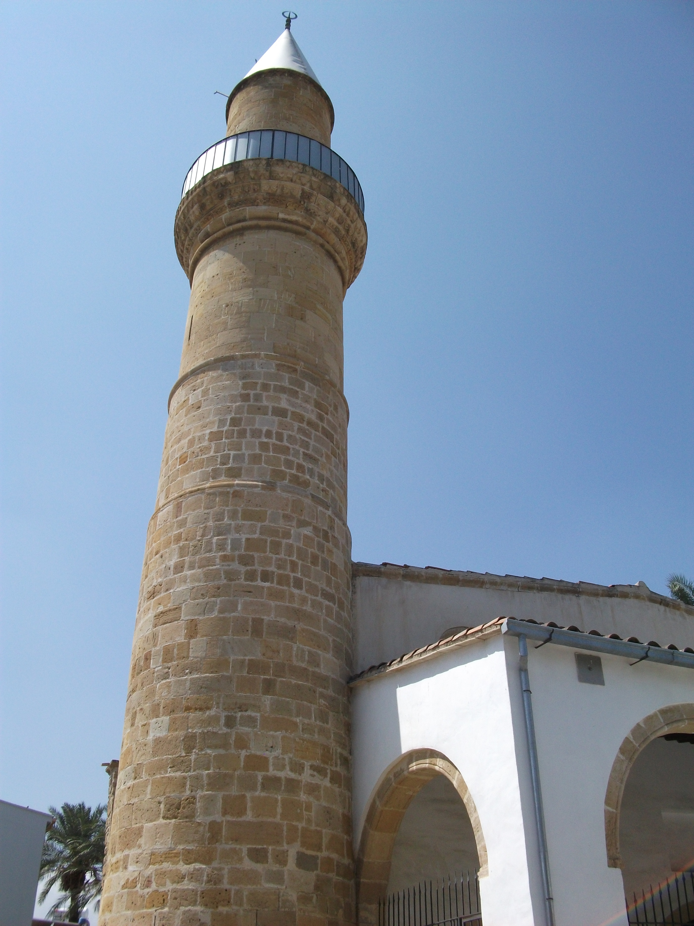 Minaret of Tahtakale Mosque.